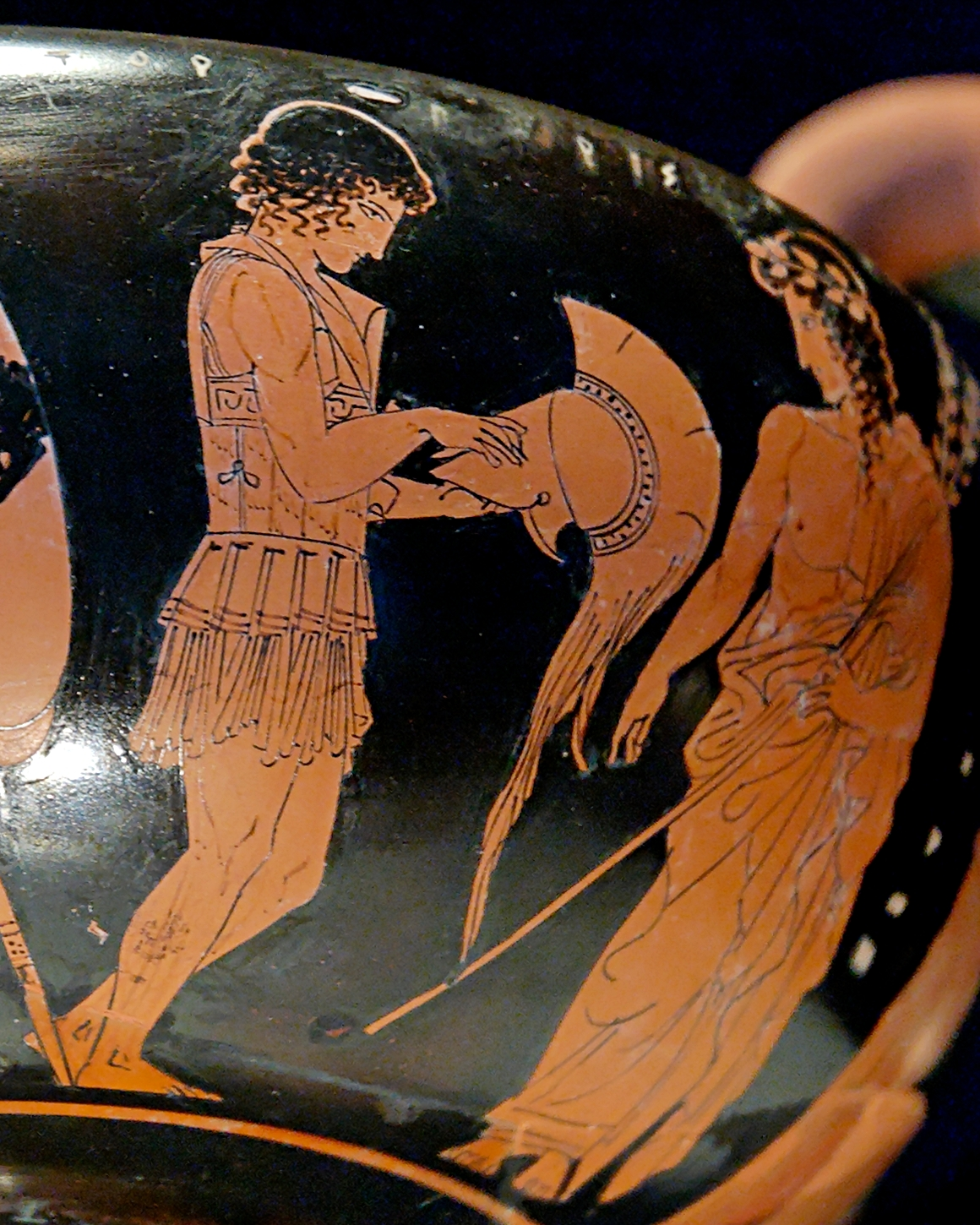 Paris (on the left) putting on his armour as Apollo (on the right) watches him. Attic red-figure kantharos.